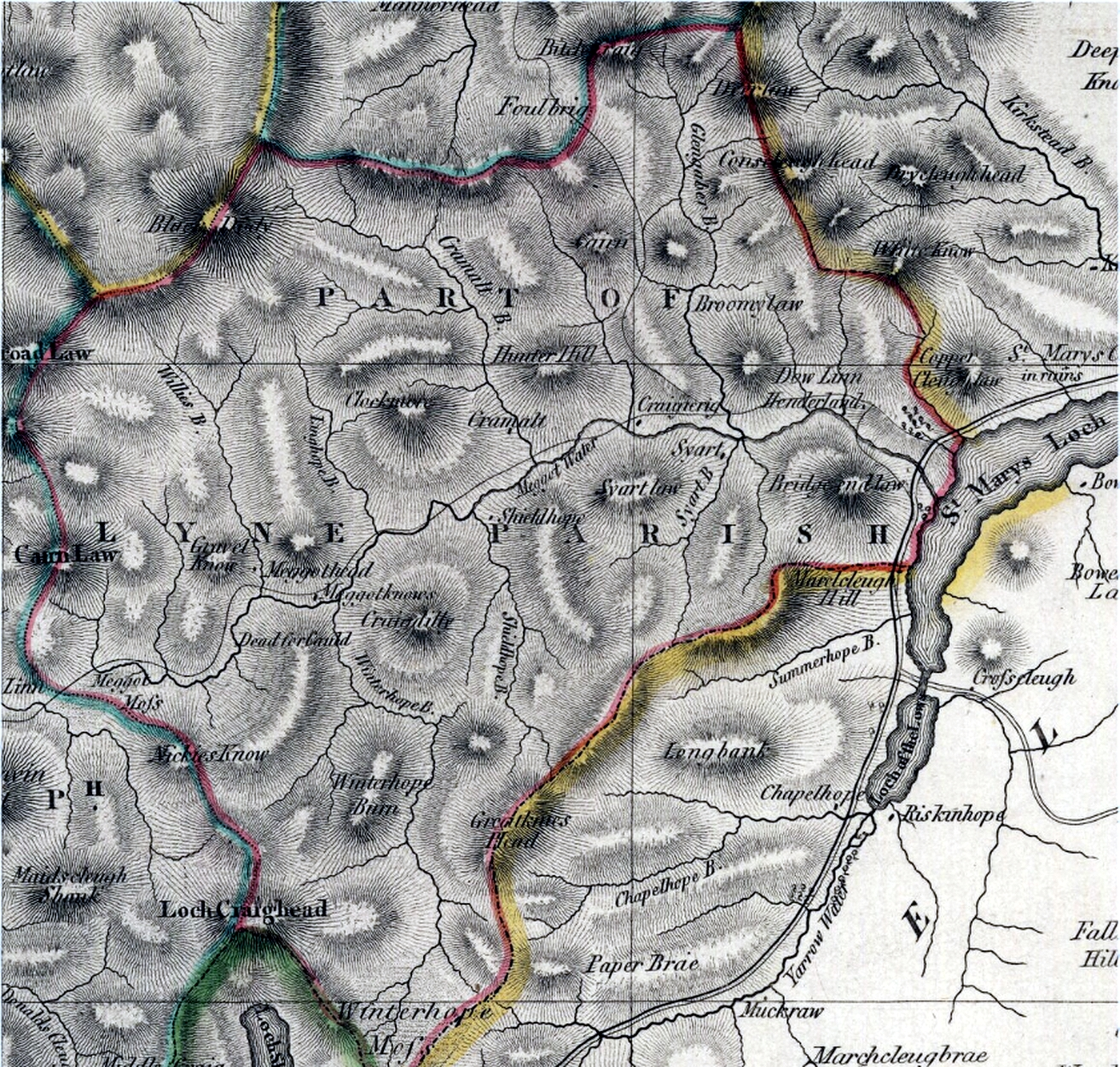 Map showing the parish boundary of Megget in 1821, then in union with the parish of Lyne, about 15 miles to the north. Both parishes in the county of Peeblesshire, Scotland